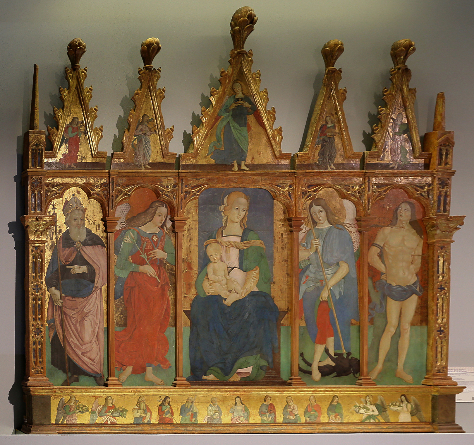 San Leonardo in Pianella Polyptych